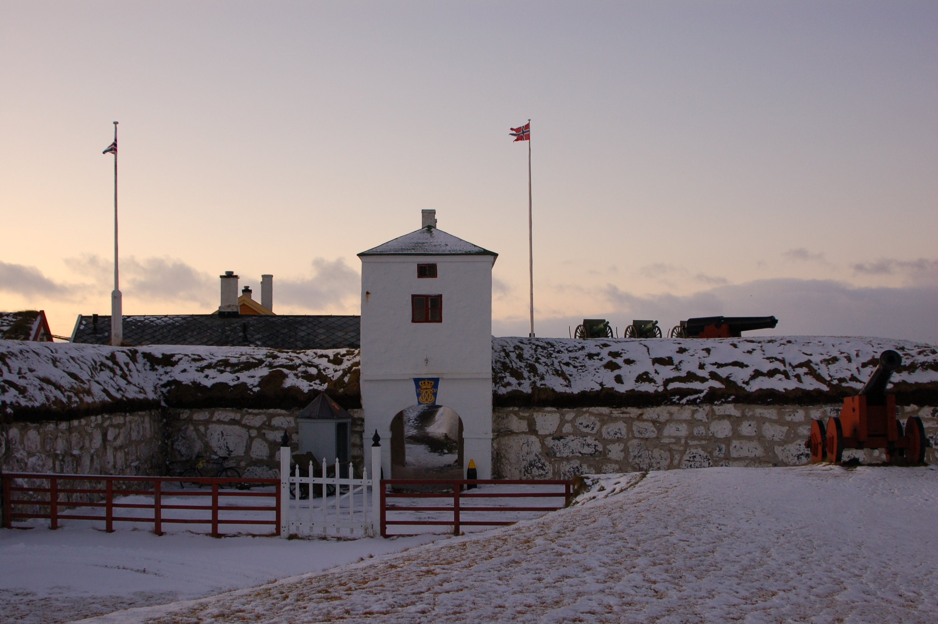 Main entrance Vardøhus Fortress